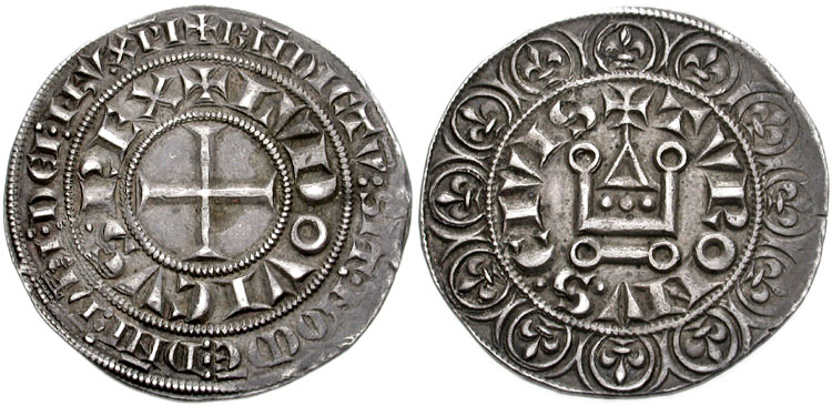 France, Royal. Louis IX (St. Louis). 1226-1270. AR Gros Tournois (25mm, 4.10 g, 5h). Struck circa 1266-1270. LVDOVICVS• REX, cross pattée TVRONV•S• CIVIS, châtel tournois within border of lis. Duplessy 190D var. (obv. legend); Lafaurie 198c var. (same)